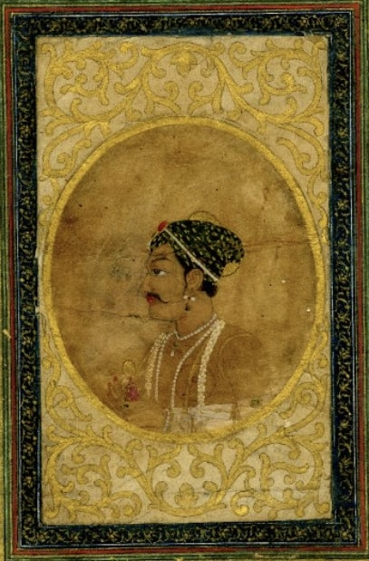 bust portrait in an oval of Sadhashiv Rao Bhao, a Maratha general, died 14 January 1761 at the Battle of Panipat.